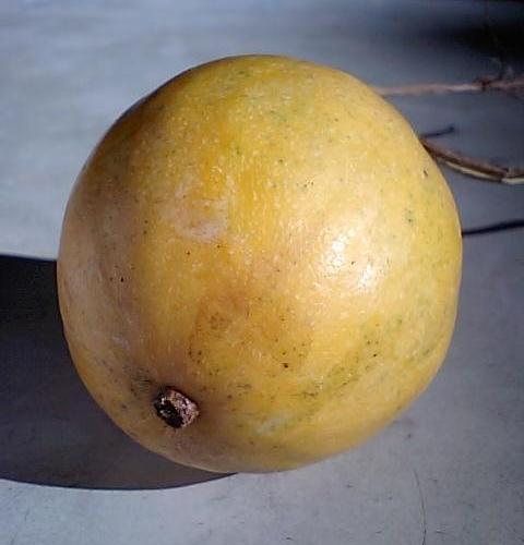 Trichosanthes kirilowii fruit